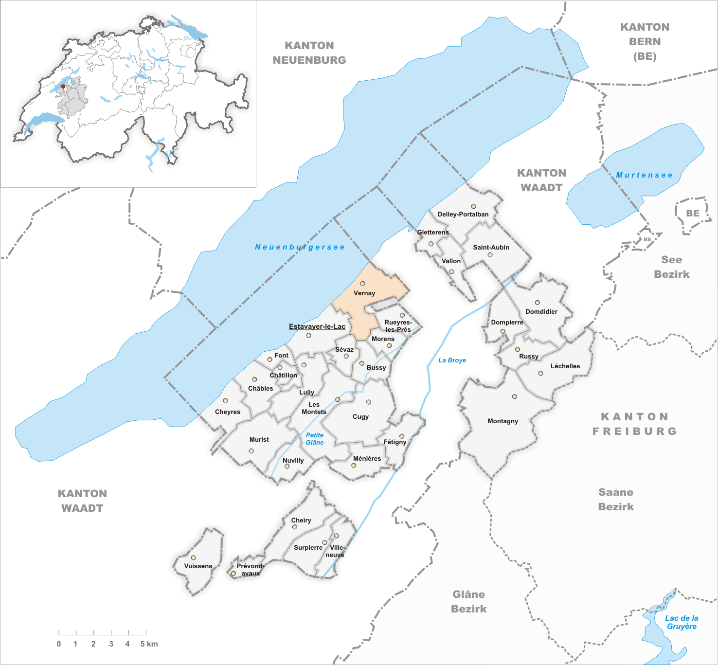 Municipality Vernay